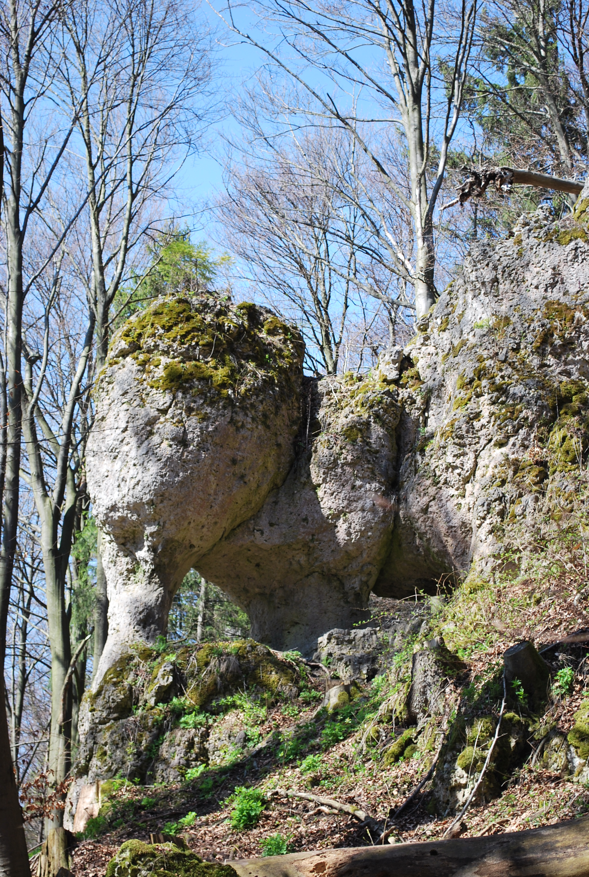 The stone Juralenfant near Betzenstein in the Franconian Switzerland